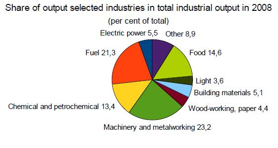 Share of output selected industries in total industrial output in 2008 in Belarus Source:National Statistical Committee of the Republic of Belarus